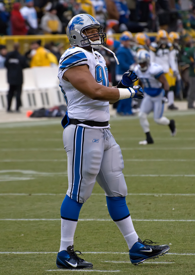 Detroit Lions vs. Green Bay Packers at Lambeau Field on January 1, 2012. Photo by Mike Morbeck.